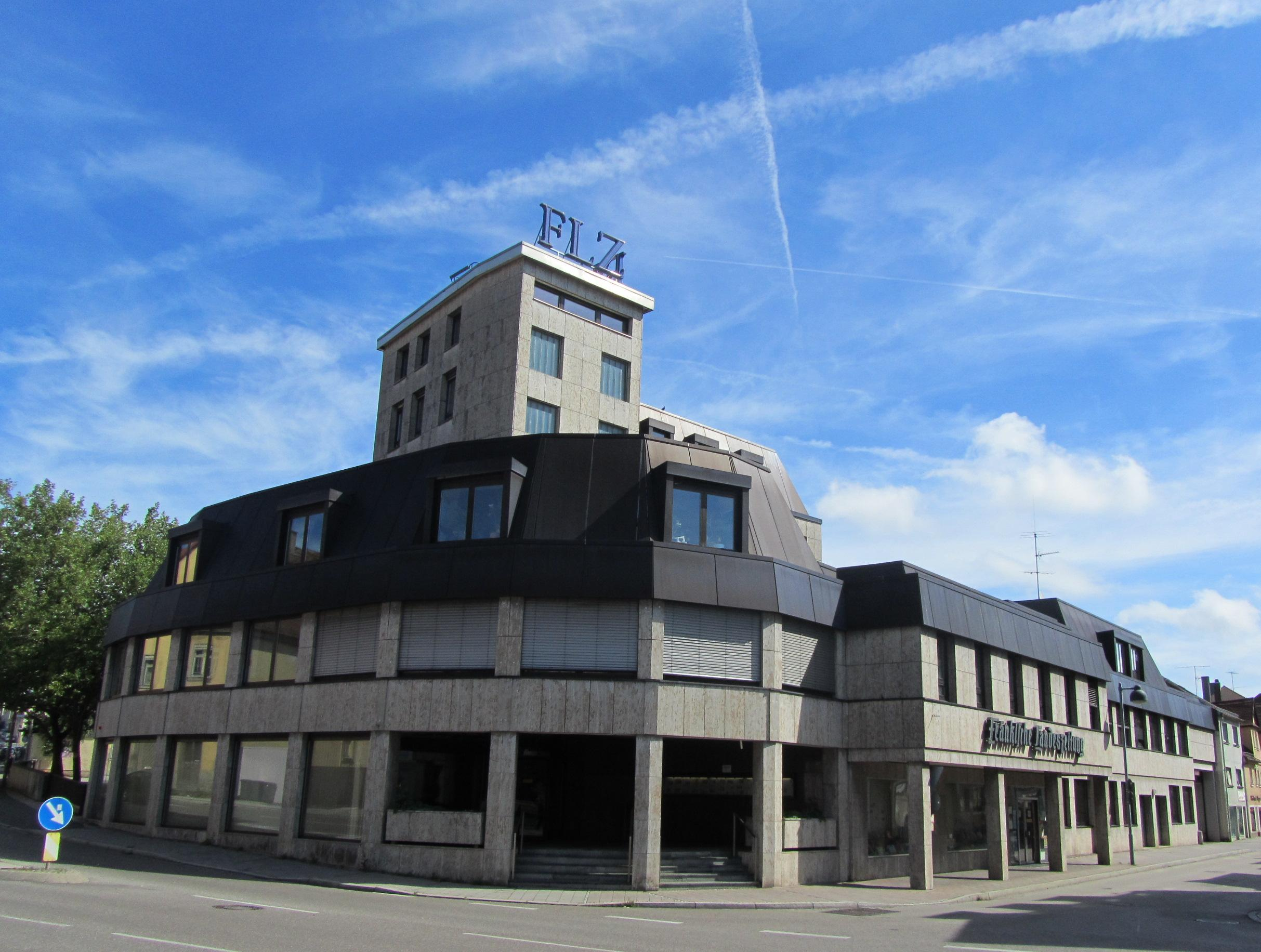 Main building of the Fränkische Landeszeitung Ansbach